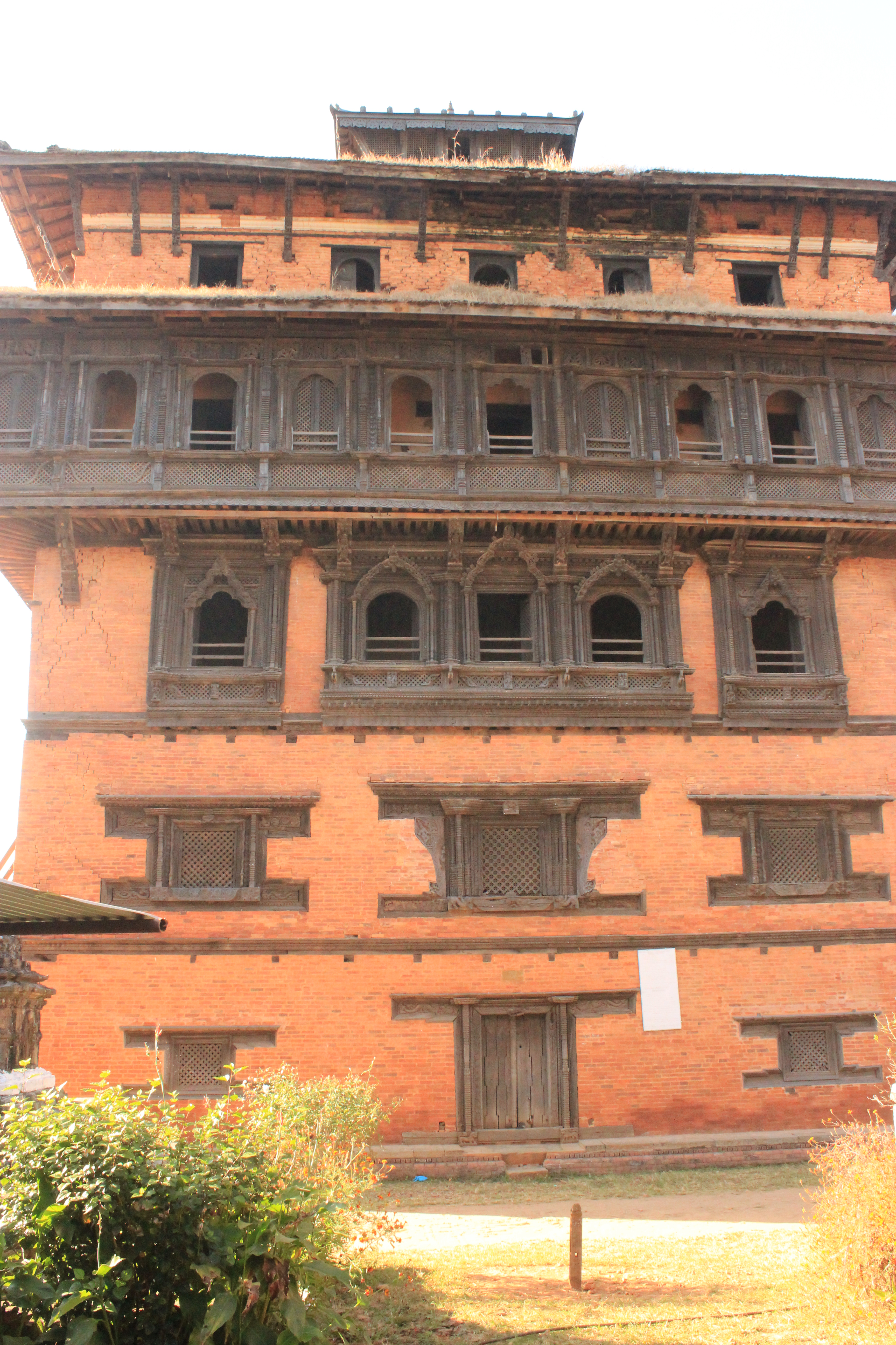 A seven stores palace famous as a Saat Talle Durbar in Nepal. This Palace was made by King Prithavi Narayan Shah.